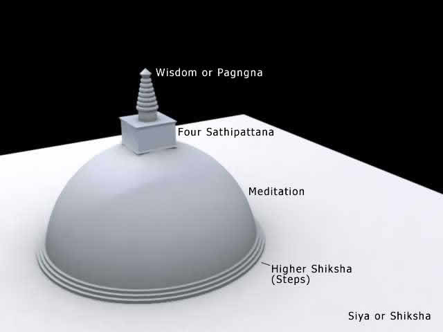 Diagram of a Buddhist Stupa in Malaysia. Credits "Kushan Liyanarachchi, I made this."